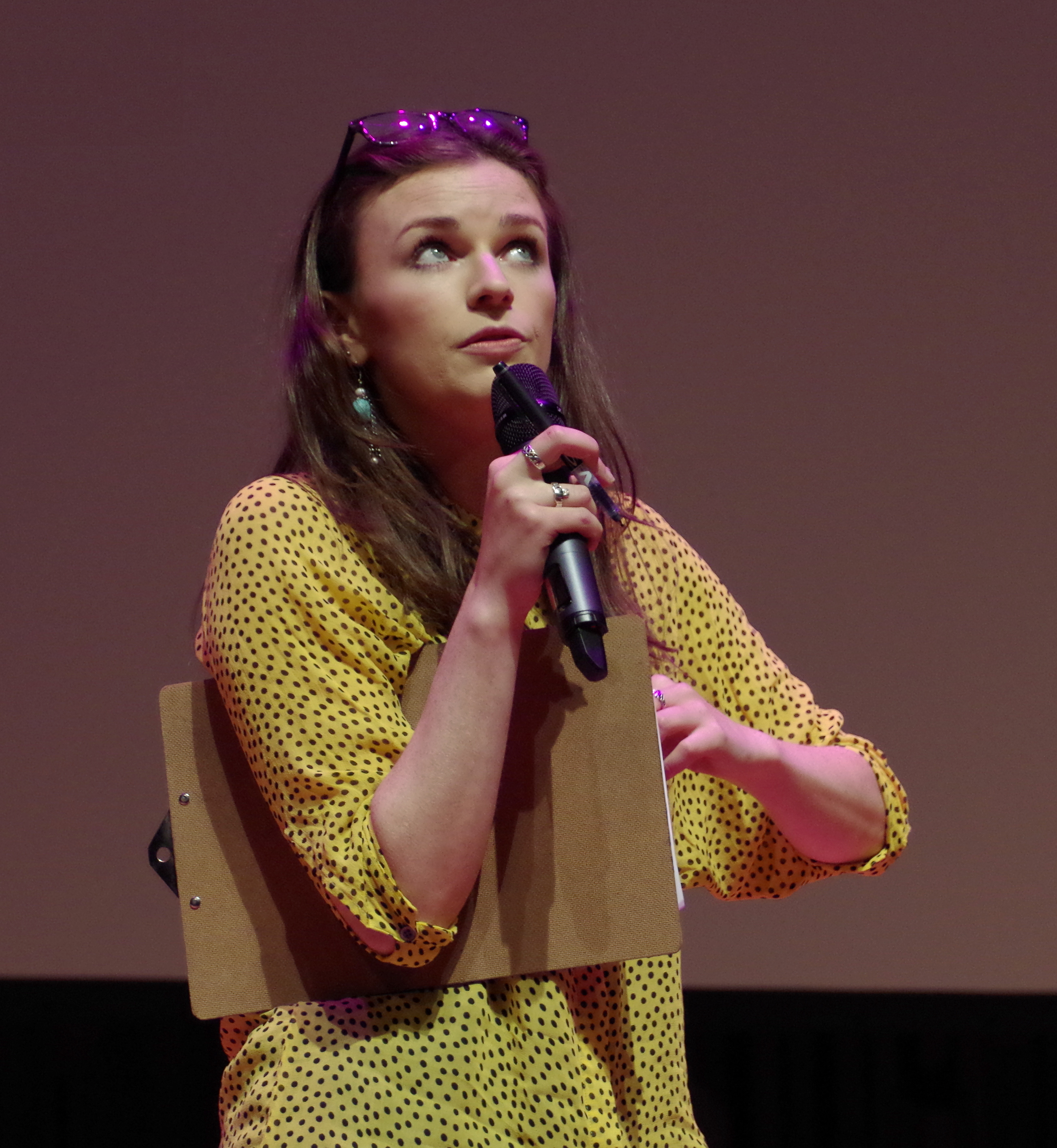 Aisling Bea does stand-up comedy for the Wikimania 2014 attendees.